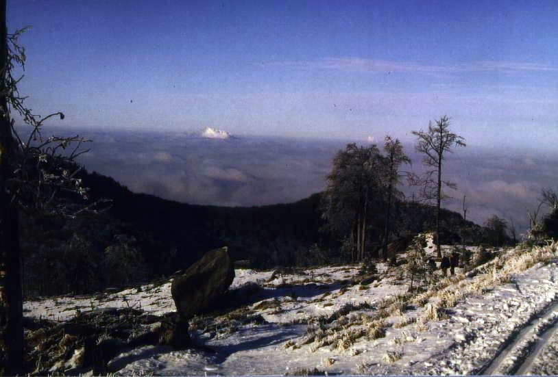 Inversion over Frýdlant, view from Bílá kuchyně to the north-west